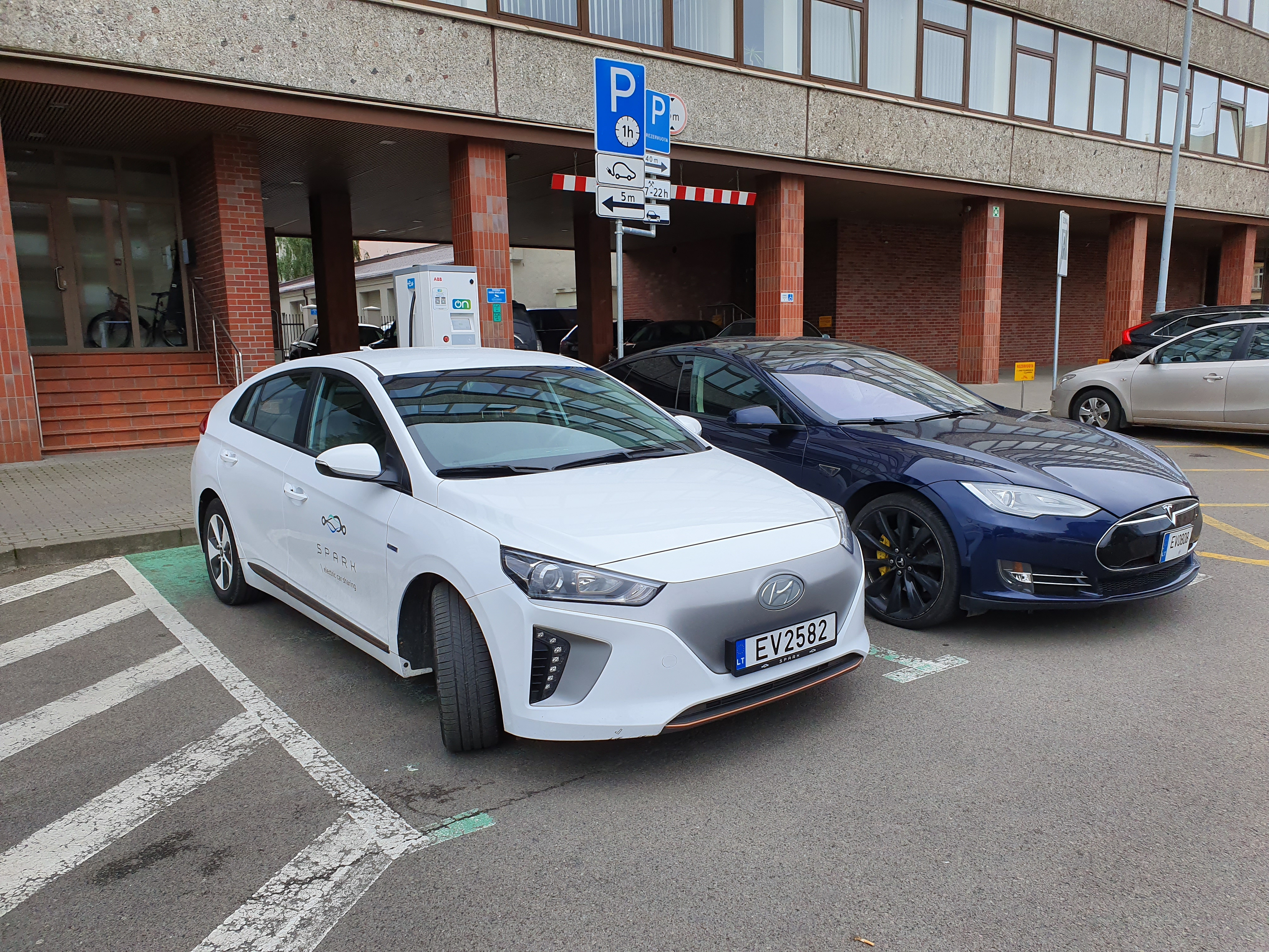 Carsharing company SPARK car Hyundai IONIQ Electric and an electric cars charging station in Vilnius, Lithuania.